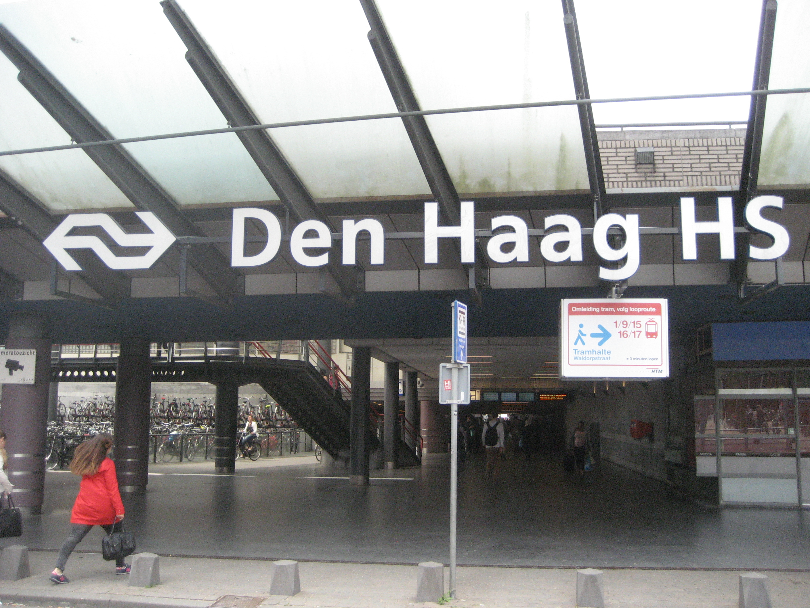 Railway Station Holland Spoor, The Hague (The Netherlands)